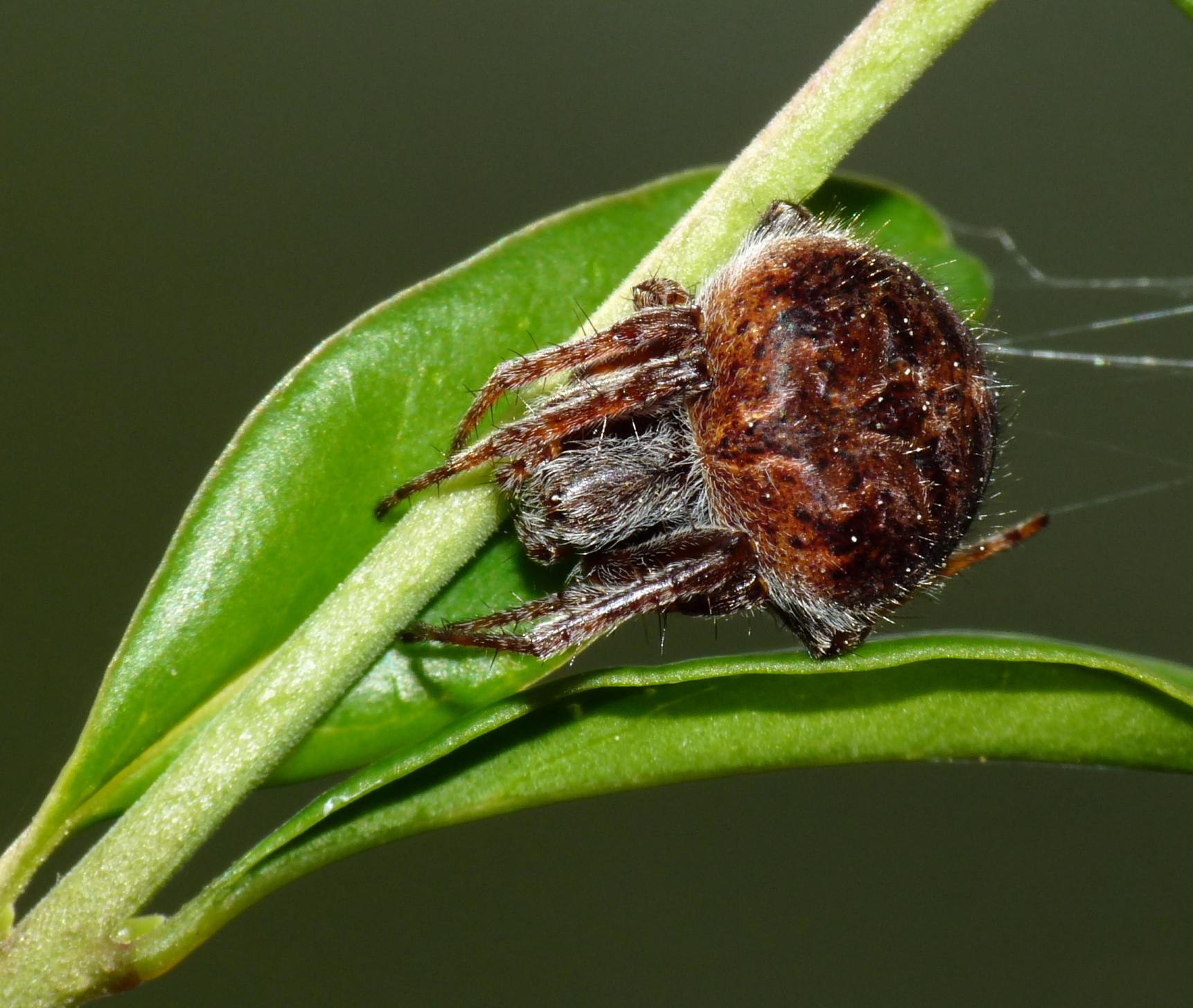 Agalenatea redii, female, near Livorno, Tuscany, Italy